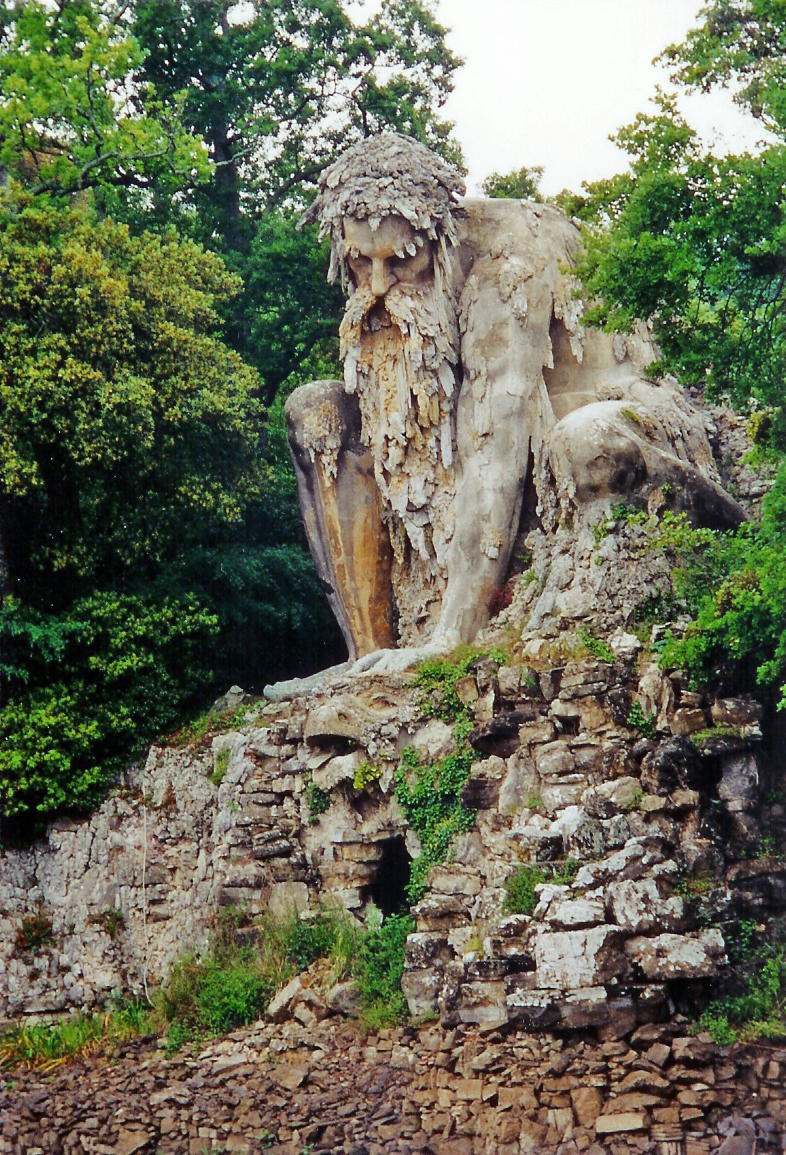 Sculpture of "Appennino" from Giambologna. Located in Villa di Pratolino, Pratolino (Florence, Italy)